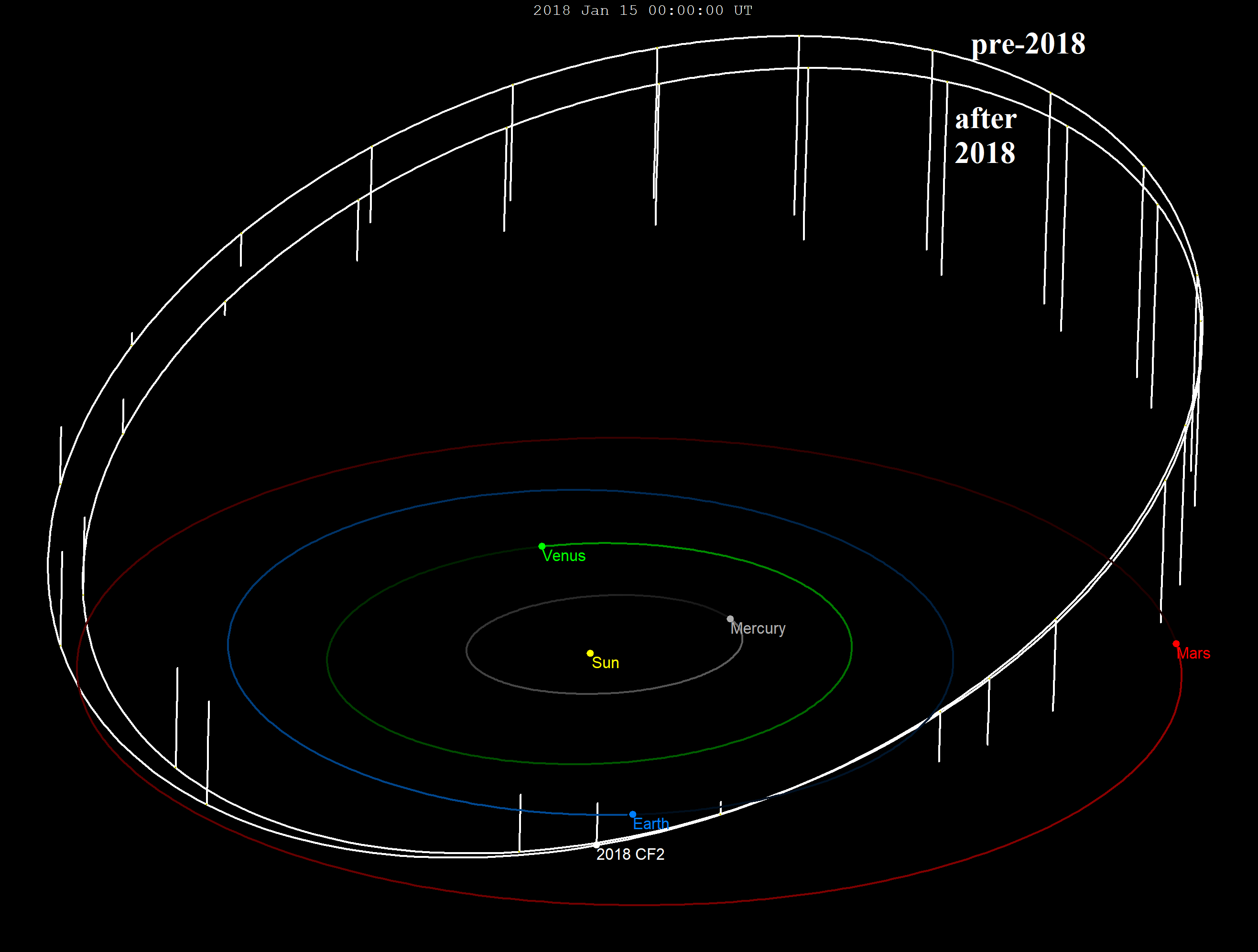 en:2018 CF2 orbital path